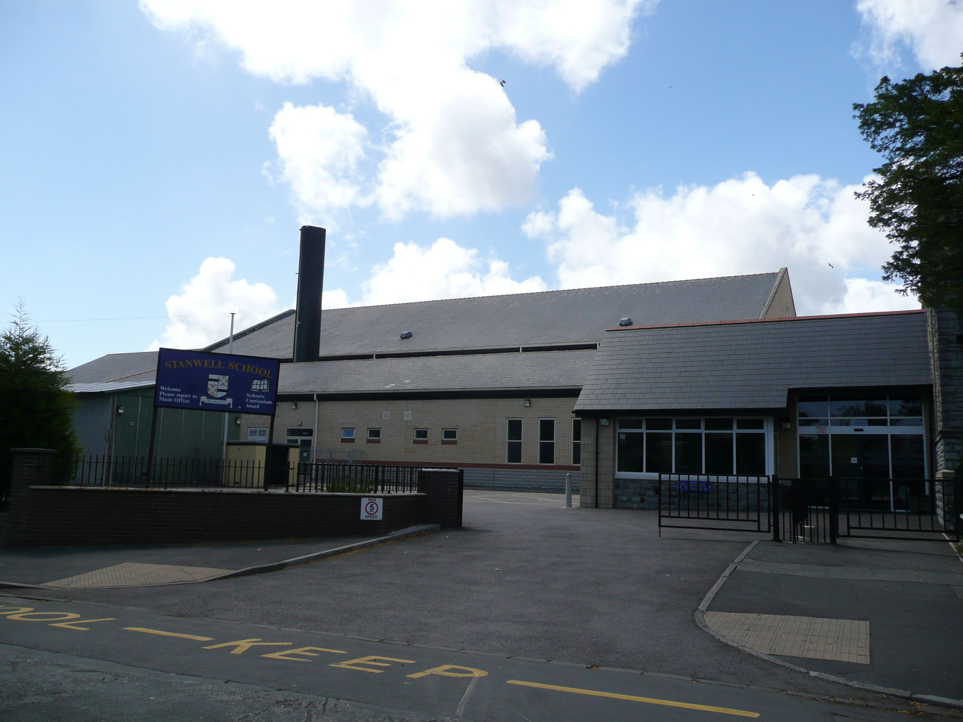 Stanwell School extension and front entrance in Penarth